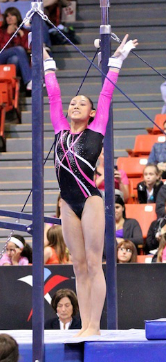 Kyla Ross